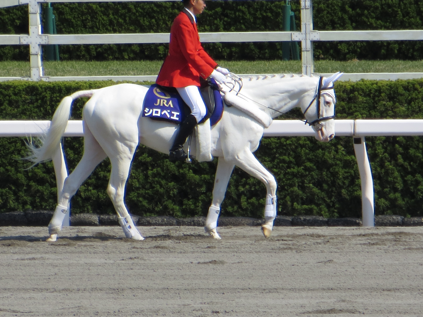 Shirobee (Leadhorse of Kyoto Racecourse) Shirobee is not a race horse.